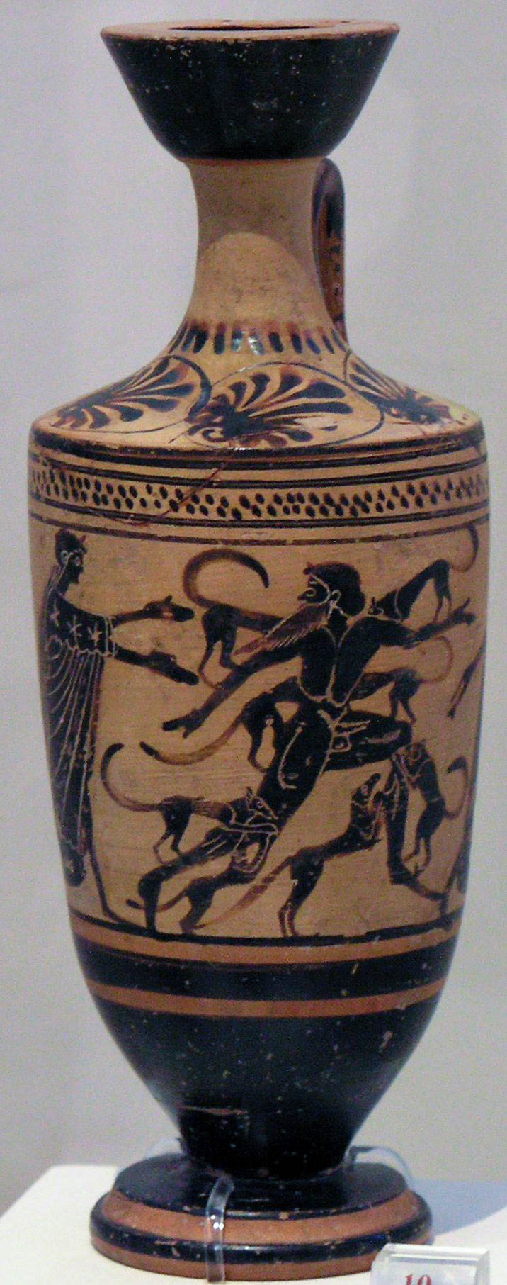 Attic white-figure lekythos, ca. 480–470 B.C., depicting Actaeon devoured by his dogs. National Archaeological Museum of Athens